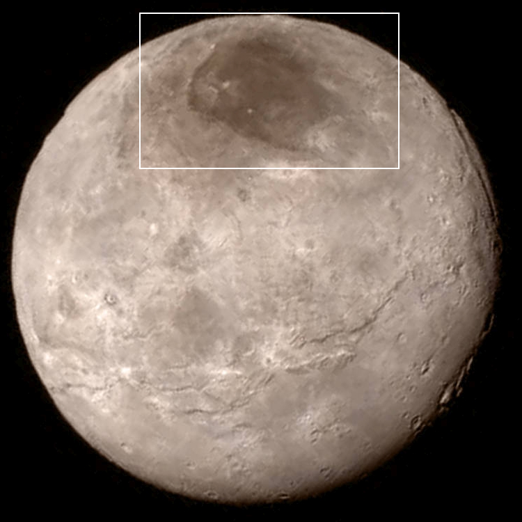 Mordor Macula is located at Charon. A large dark area about 475 km in diameter near the north pole of Charon, Pluto's largest moon. It is named after the shadow lands in J.R.R. Tolkien's The Lord of the Rings. The name is not official; the discovery team has been using the name informally and may submit it to the IAU. It is not currently known what Mordor is. It may be frozen gases captured from Pluto's escaping atmosphere, a large impact basin, or both.